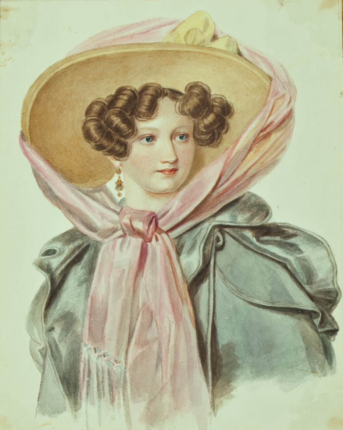 The Middleton Watercolor Album consists of a collection of 45 watercolor portraits bound in leather covers with neo-gothic embossing and a gilt bronze clasp in the same style. The album relates to the Middleton family of South Carolina, from which it descended until Hillwood purchased it in 2004. Williams Middleton—who was secretary to his father, Henry Middleton, the American minister to St. Petersburg from 1820 to 1830—assembled this album. The artist of many of the watercolors, most of which are unsigned, is likely Middleton's sister, Maria Henrietta, who studied painting during her years in St. Petersburg with her governess, Madame Mathes, who also painted miniatures. Two watercolors, including this portrait of the Countess Bobrinsky, are signed by the well-known Russian watercolorist Petr Sokolov. The portraits are of Russians and people in the foreign community who were close associates of the Middleton family. Their portraits provide an extraordinary commentary on the fashion and hairstyles of the 1820s. Елена Павловна Тизенгаузен (Донец-Захаржевская)